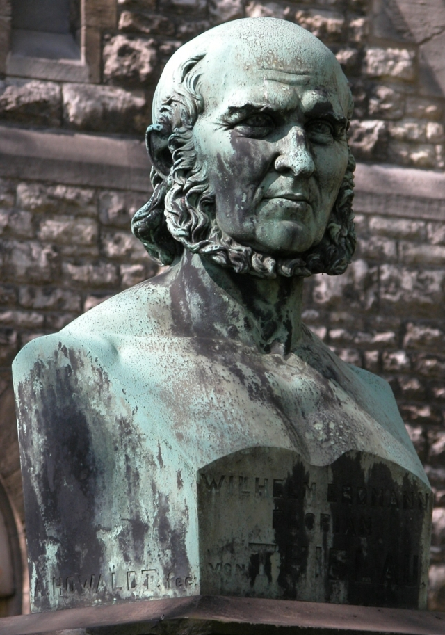 Brunswick, Germany: Thielau-Monument.